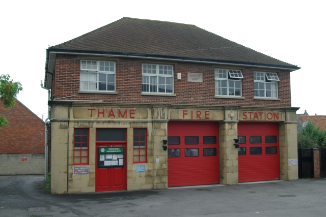 Thame fire station Thame fire station, Nelson Street, Thame, Oxfordshire